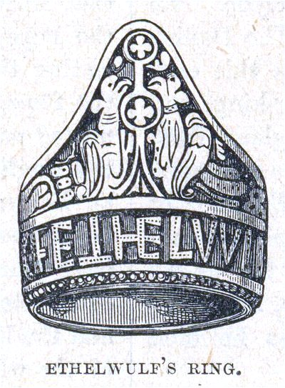 Æthelwulf's ring, depicted in Cassell's History of England, Century Edition, published circa 1902. Worldcat and other online sources do not show the author or illustrator.